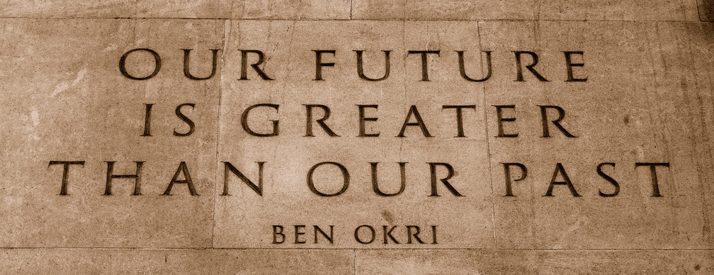 Quote from Ben Okri's Mental Fight on the Memorial Gates (Constitution Hill) at the Hyde Park Corner end of Constitution Hill in London, UK.